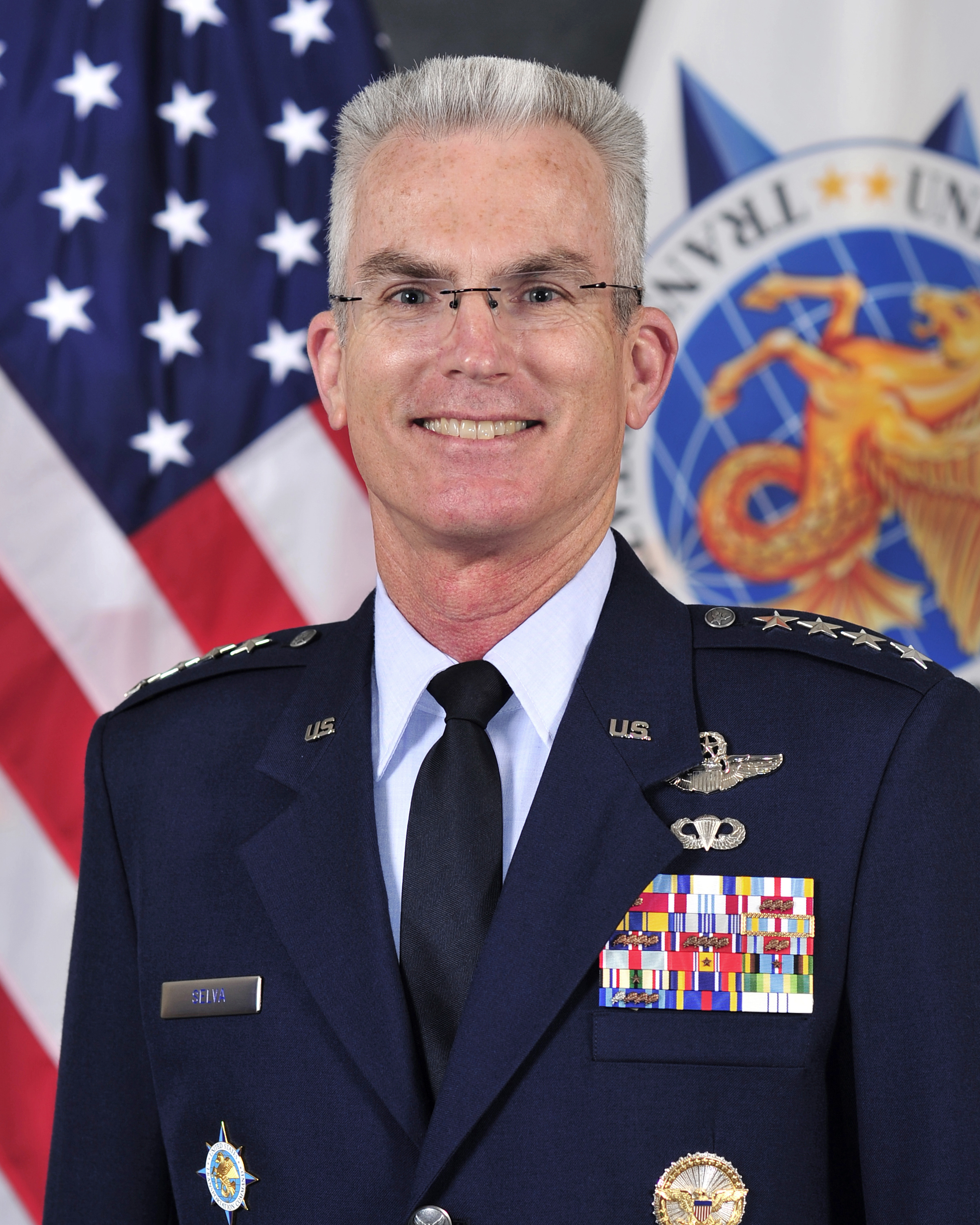 New commander of USTRANSCOM, Gen. Paul J. Selva, USAF